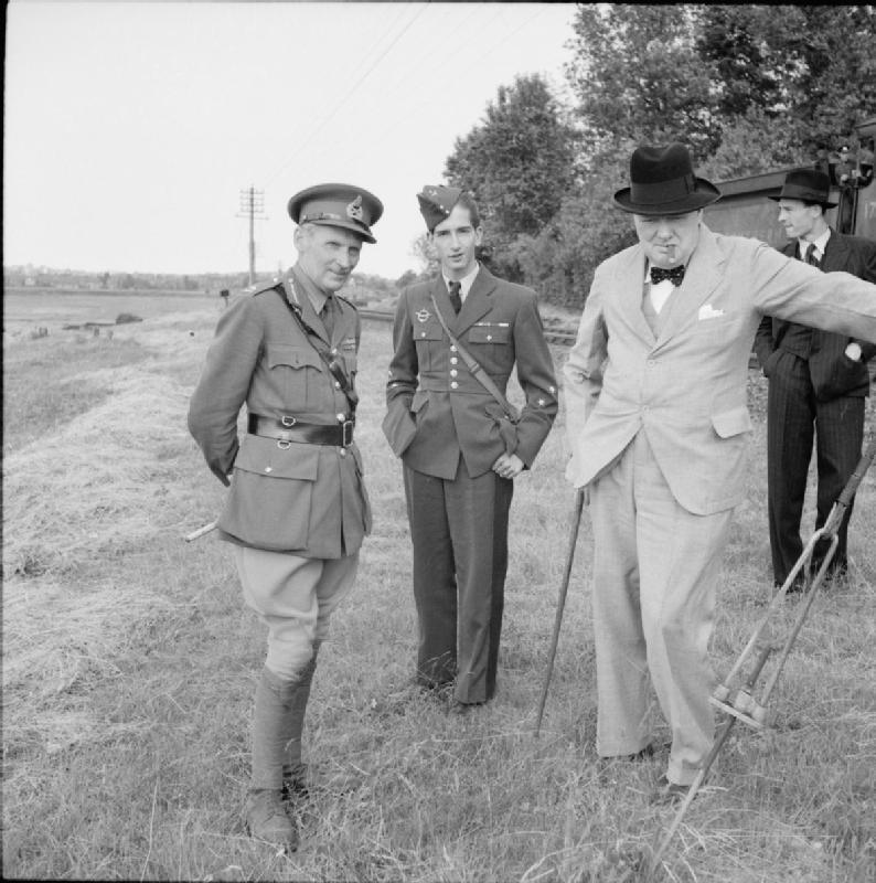 Field Marshal the Viscount Montgomery of Alamein Kg Gcb Dso 1887-1976 The Second World War 1939 -1945: Prime Minister Winston Churchill and King Peter II of Yugoslavia with Lieutenant-General Montgomery who had recently been appointed commander of 12th Corps.